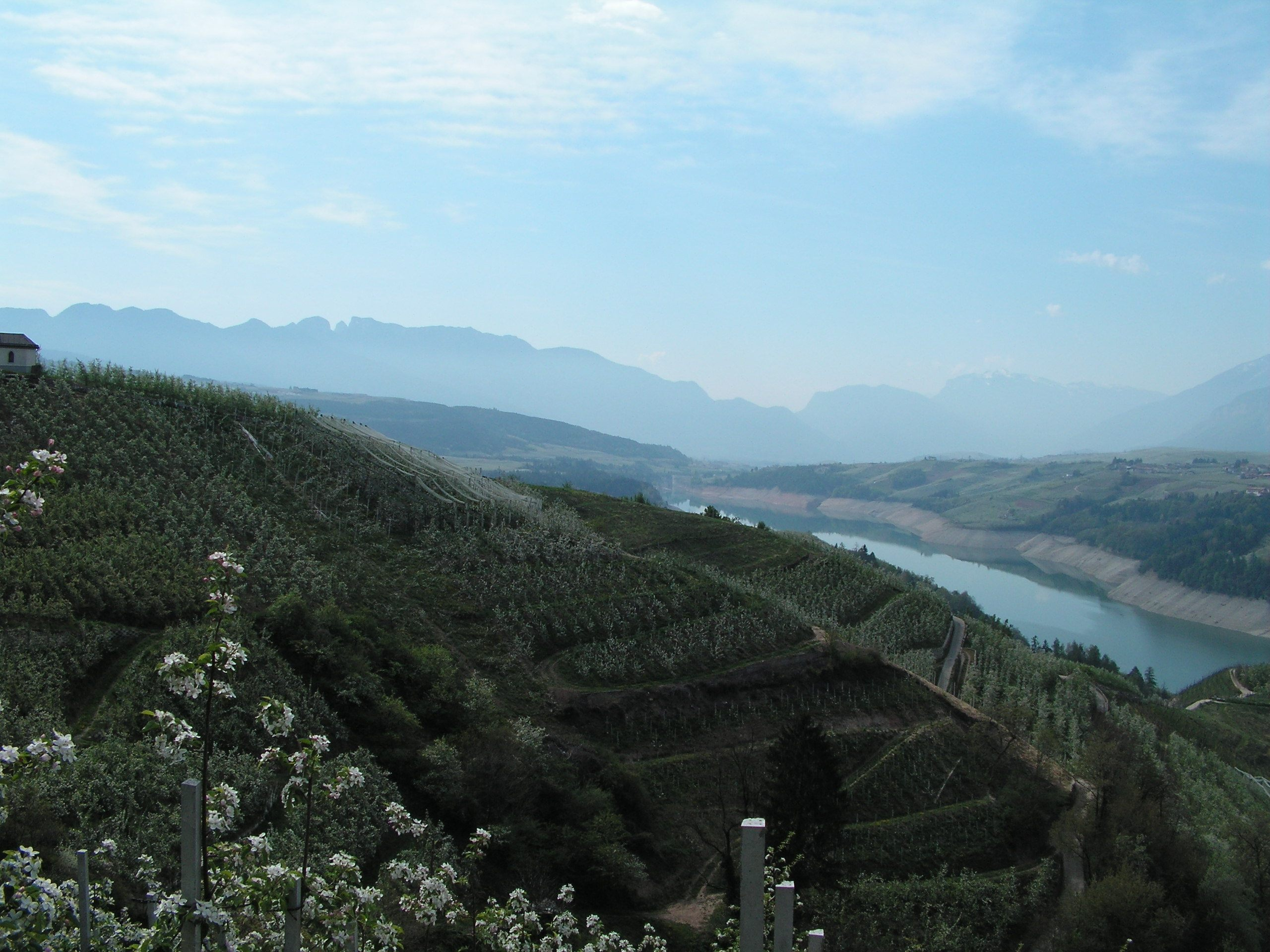 Apple orchards in Val di Non - Italy.